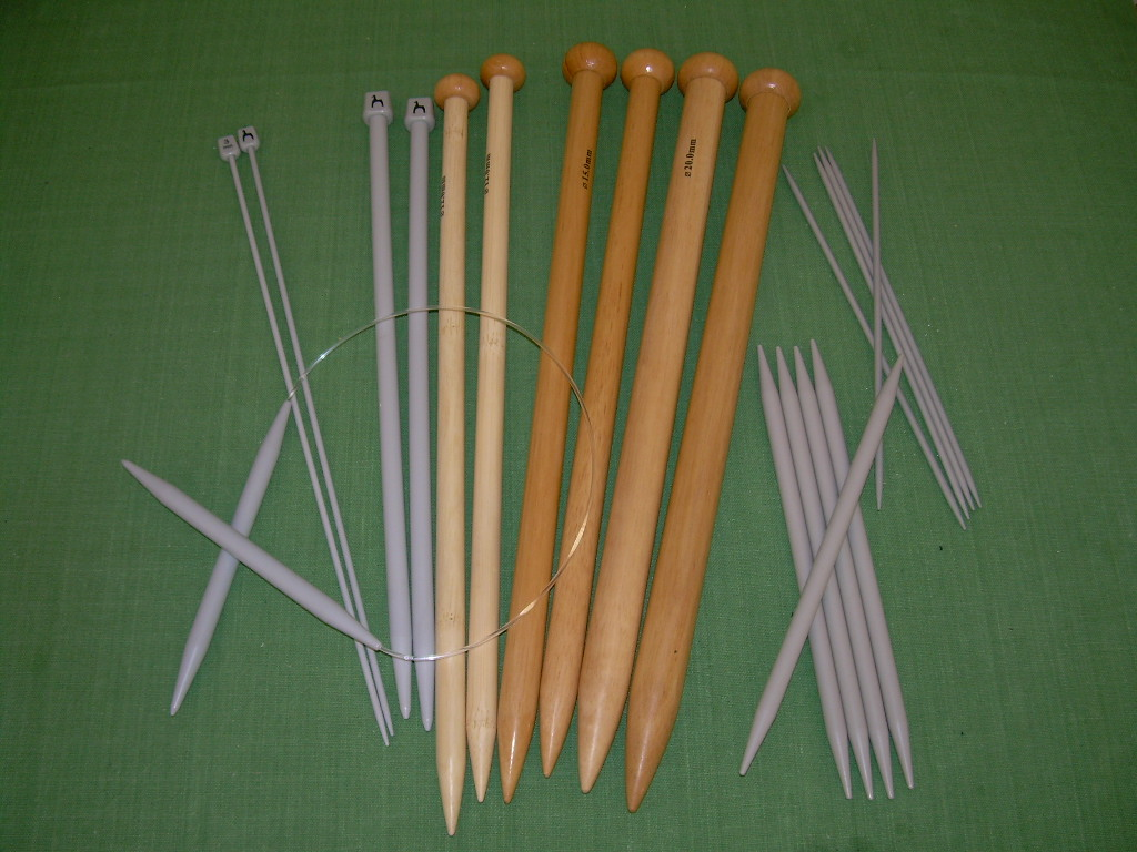 A selection of knitting needles